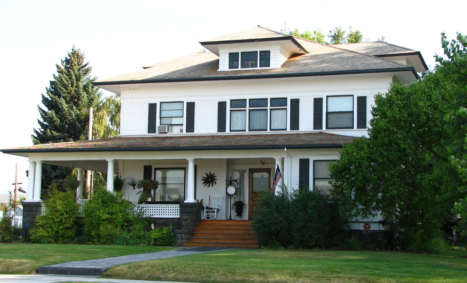 The Thomas M. Baldwin House at 126 West 1st Street, Prineville, Oregon, United States is listed on the US National Register of Historic Places. It is currently in its historic use as a residence.